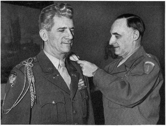 Brig. Gen. Frank L. Howley, director of OMG Berlin Sector and commandant of the US Sector of Berlin, receives the star of his new rank from General Lucius D. Clay, US Military Governor for Germany an commander-in-chief of the European command (US Army photo)